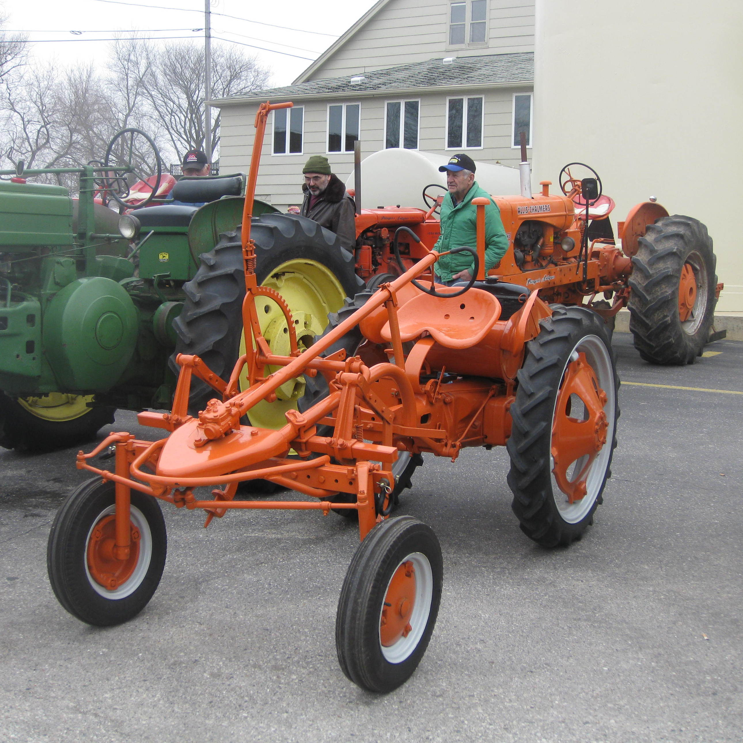 An Allis-Chalmers G implement carrier tractor at a tractor show somewhere in the USA